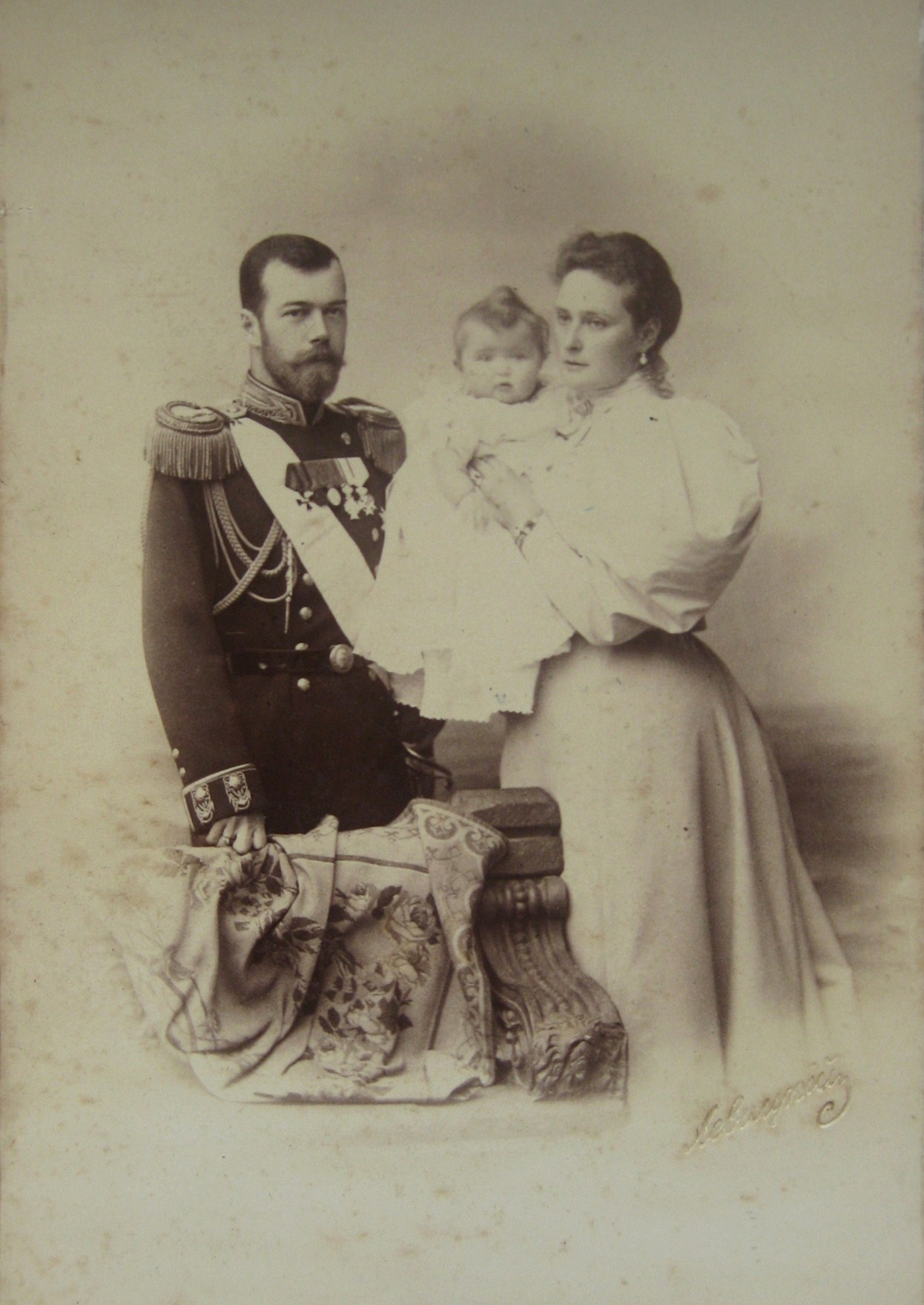 Photo stopping "Emperor Nicholas II and Empress Alexandra Feodorovna and her daughter Olga."